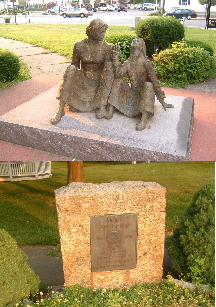 Anne Sullivan Memorial placque and statue, Feeding Hills, Ma, USA